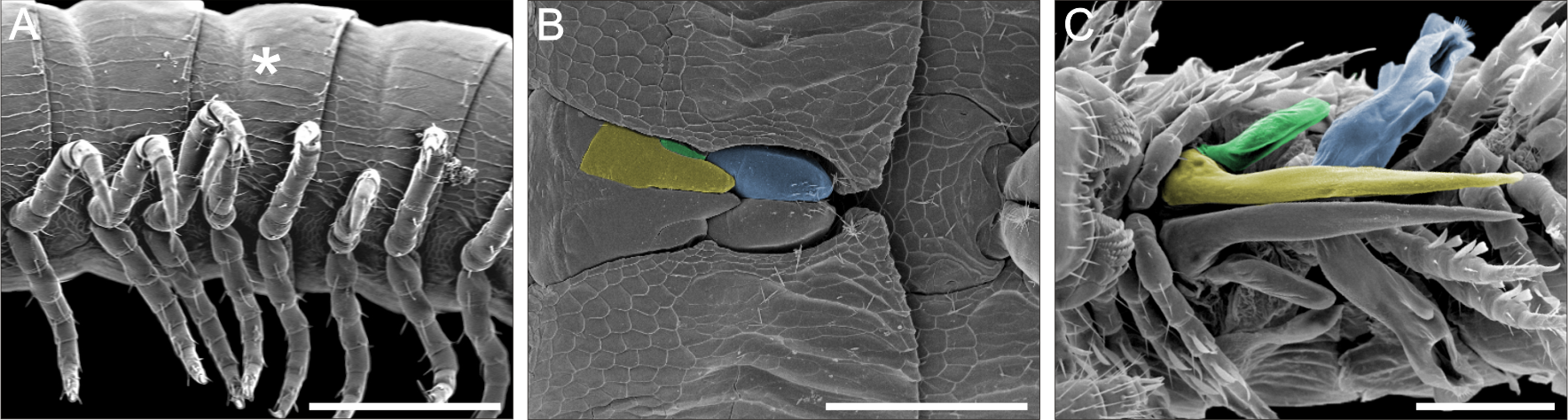 Main stages of non-systemic metamorphosis in Nopoiulus kochii (Julida). A, last stadium with walking legs on ring VII (asterisk); SEM, latero-ventral view. B, gonopod primordia; SEM, ventral view. C, gonopods; SEM, ventral view. Yellow, coxal process; Green, anterior gonopod telopodite; Blue, posterior gonopod telopodite. Anterior to the left, scale bars 200 μm.